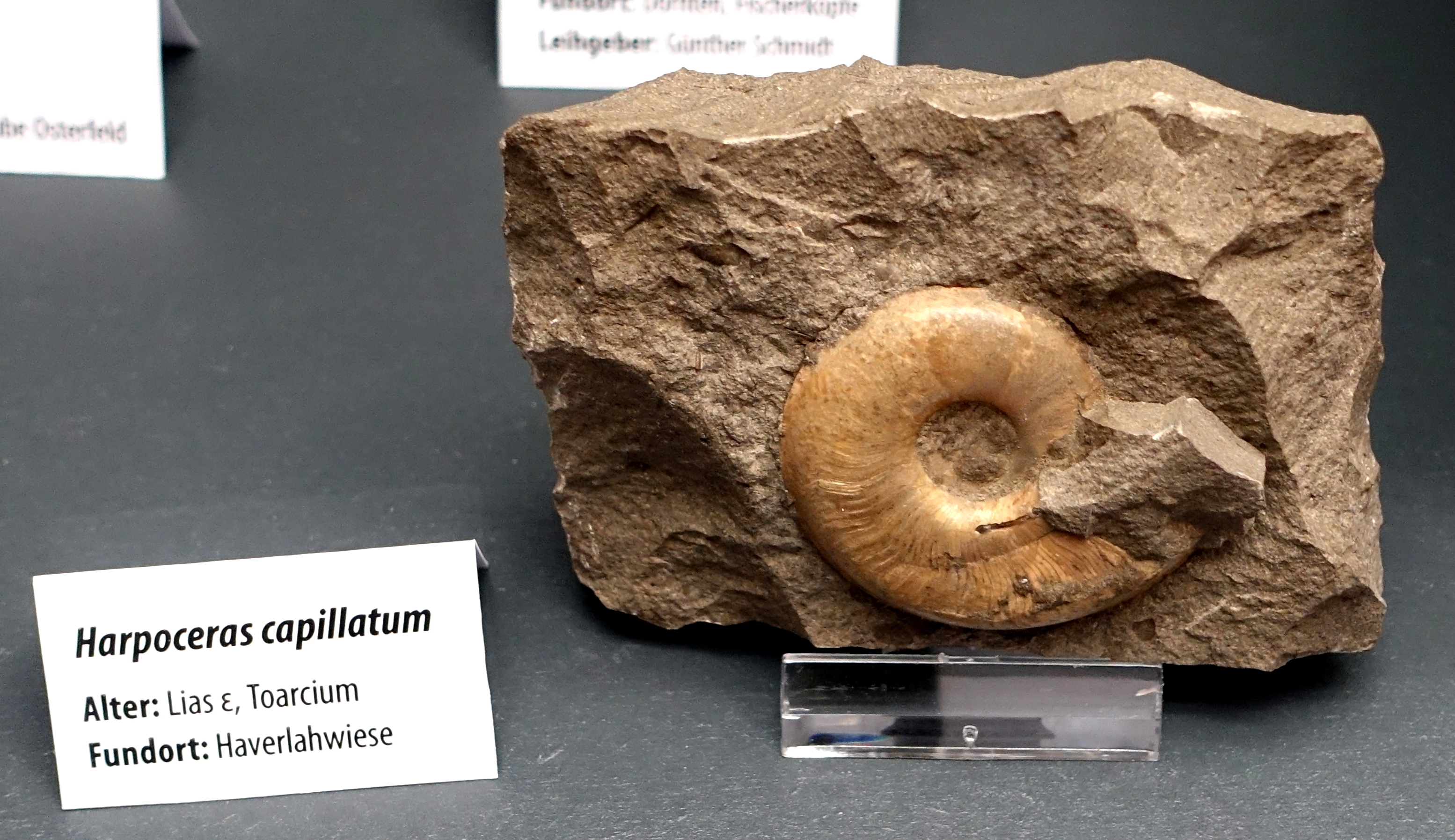 Exhibit in the Naturhistorisches Museum, Braunschweig, Germany.